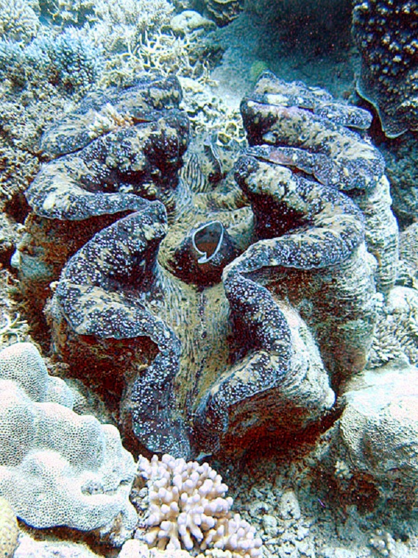 Giant clam or Tridacna gigas. Photographed by Jan Derk in November 2002 on the Great Barrier Reef, Australia.